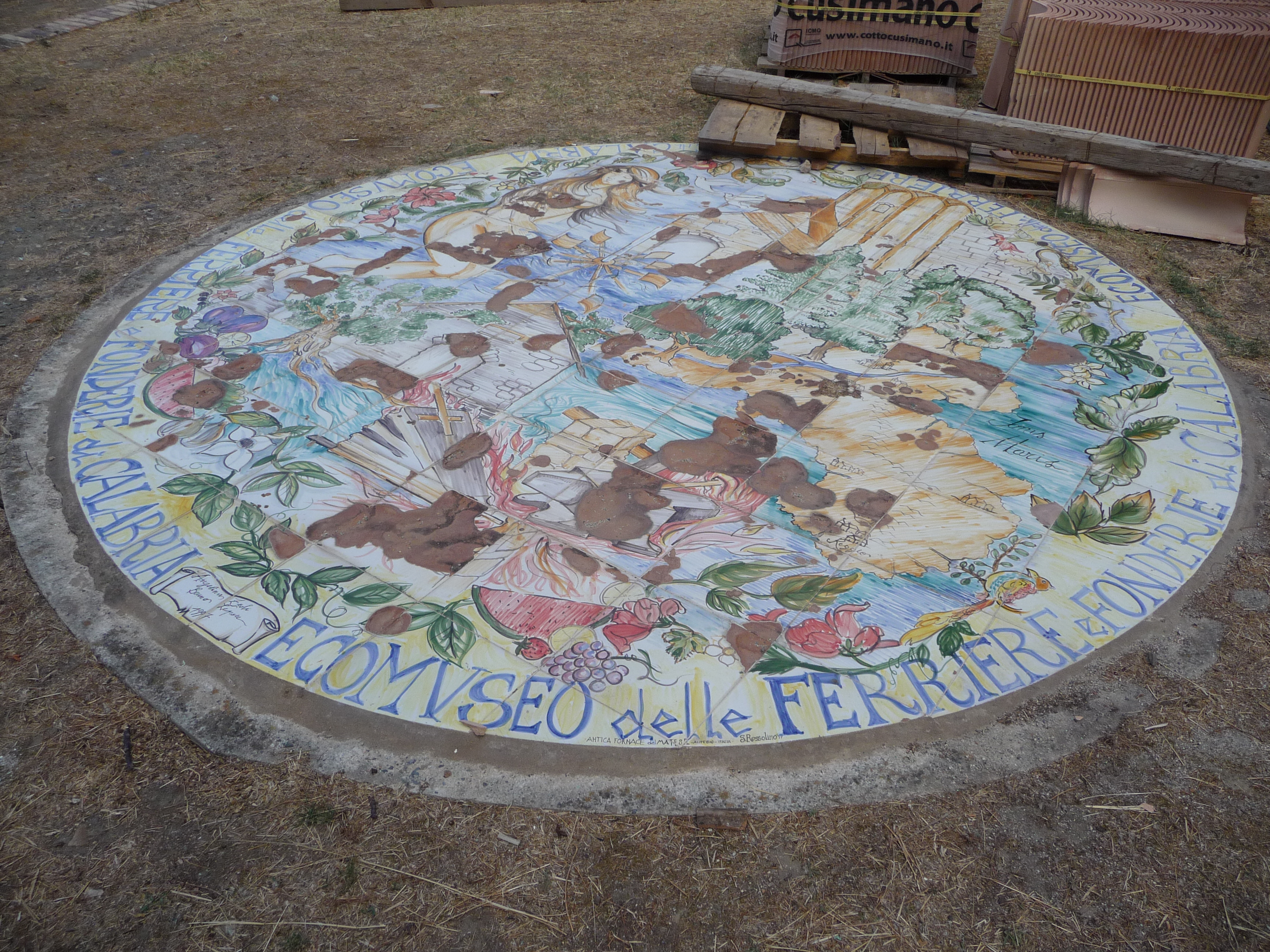 Ecomuseo delle Ferriere e fonderie di Calabria Association